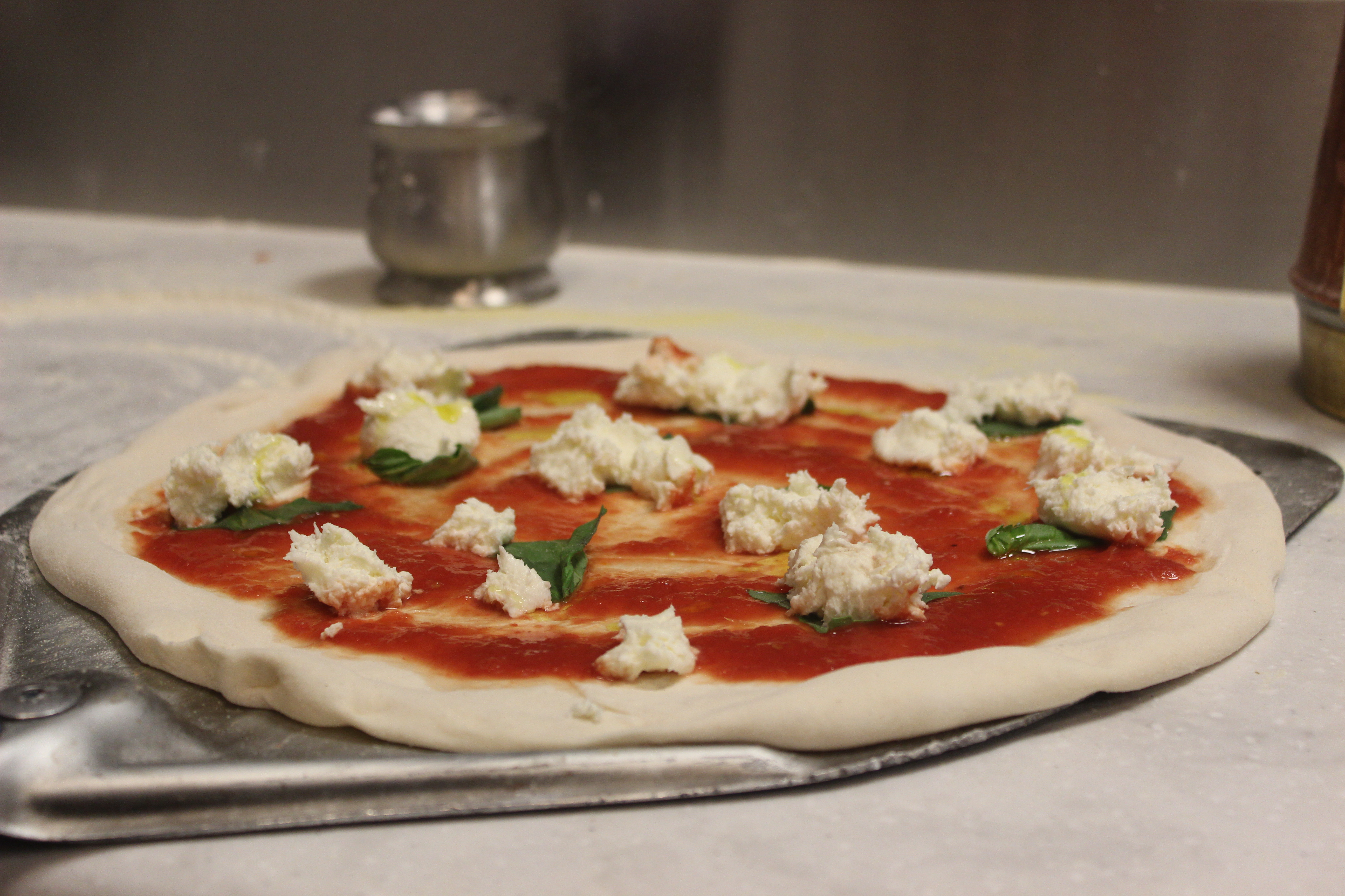 Gemignani's Award Winning Margherita Pizza at Tony's of North Beach in Rohnert Park, California.